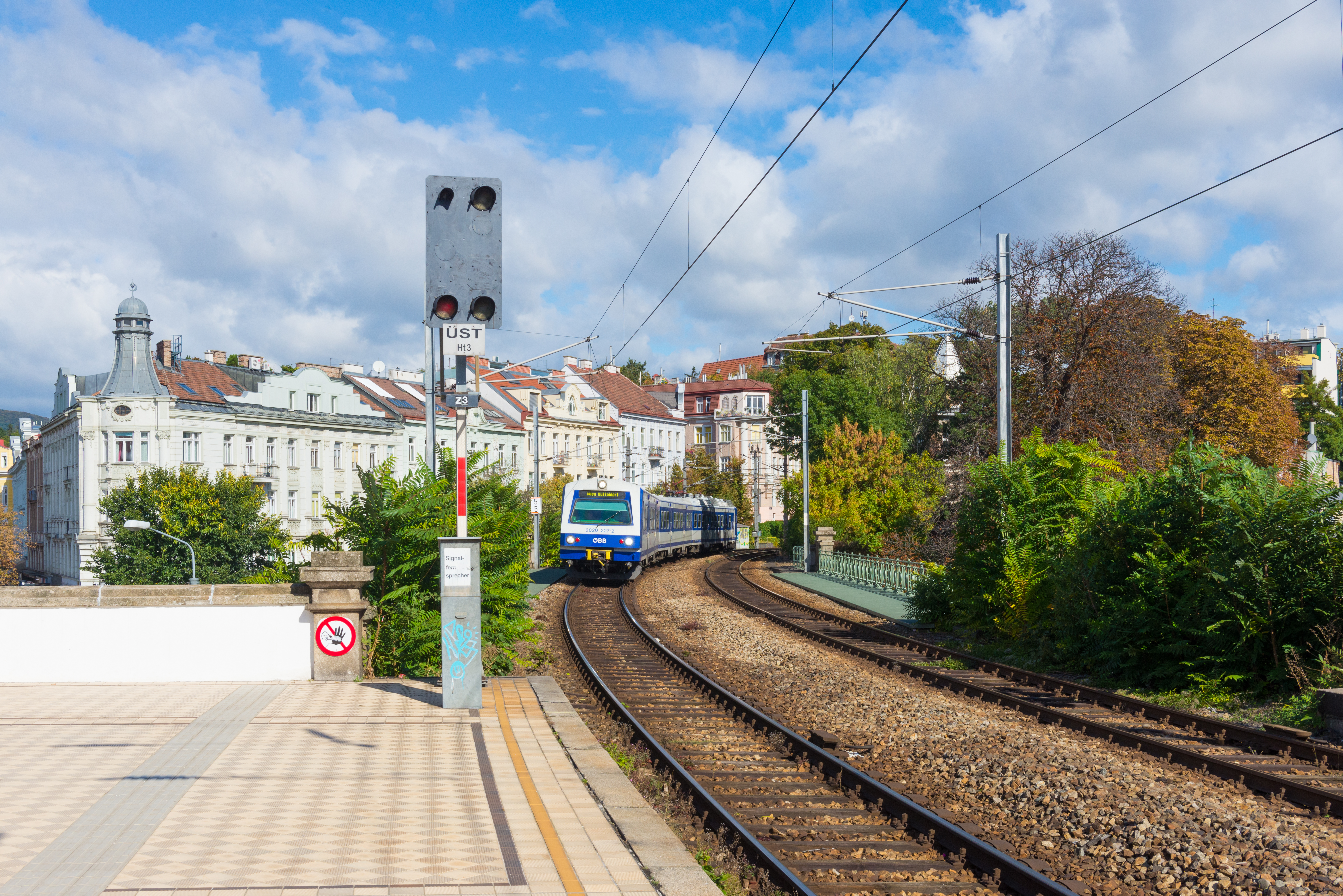 ÖBB 4020-227 enters the Gersthof train station.